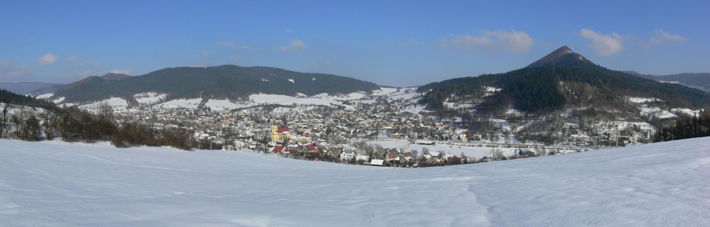 Panorama of slovak village Udica in winter